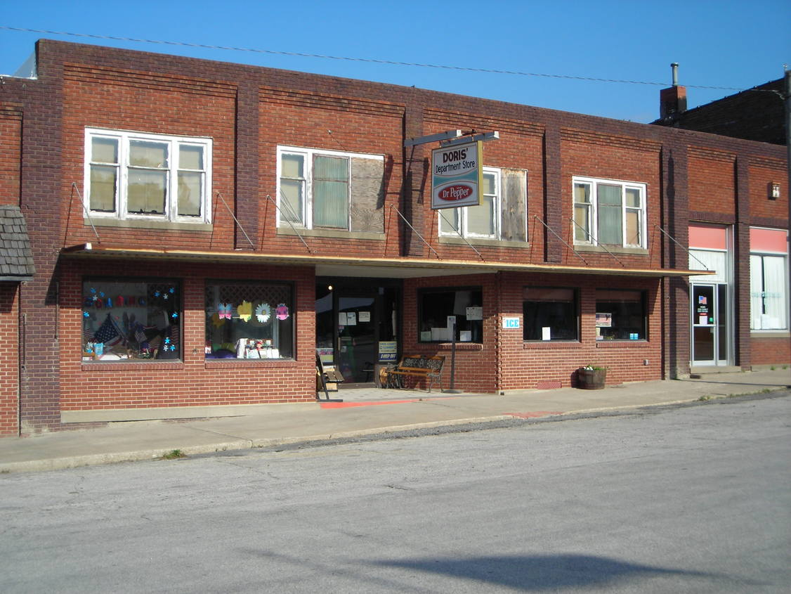 Bridgewater